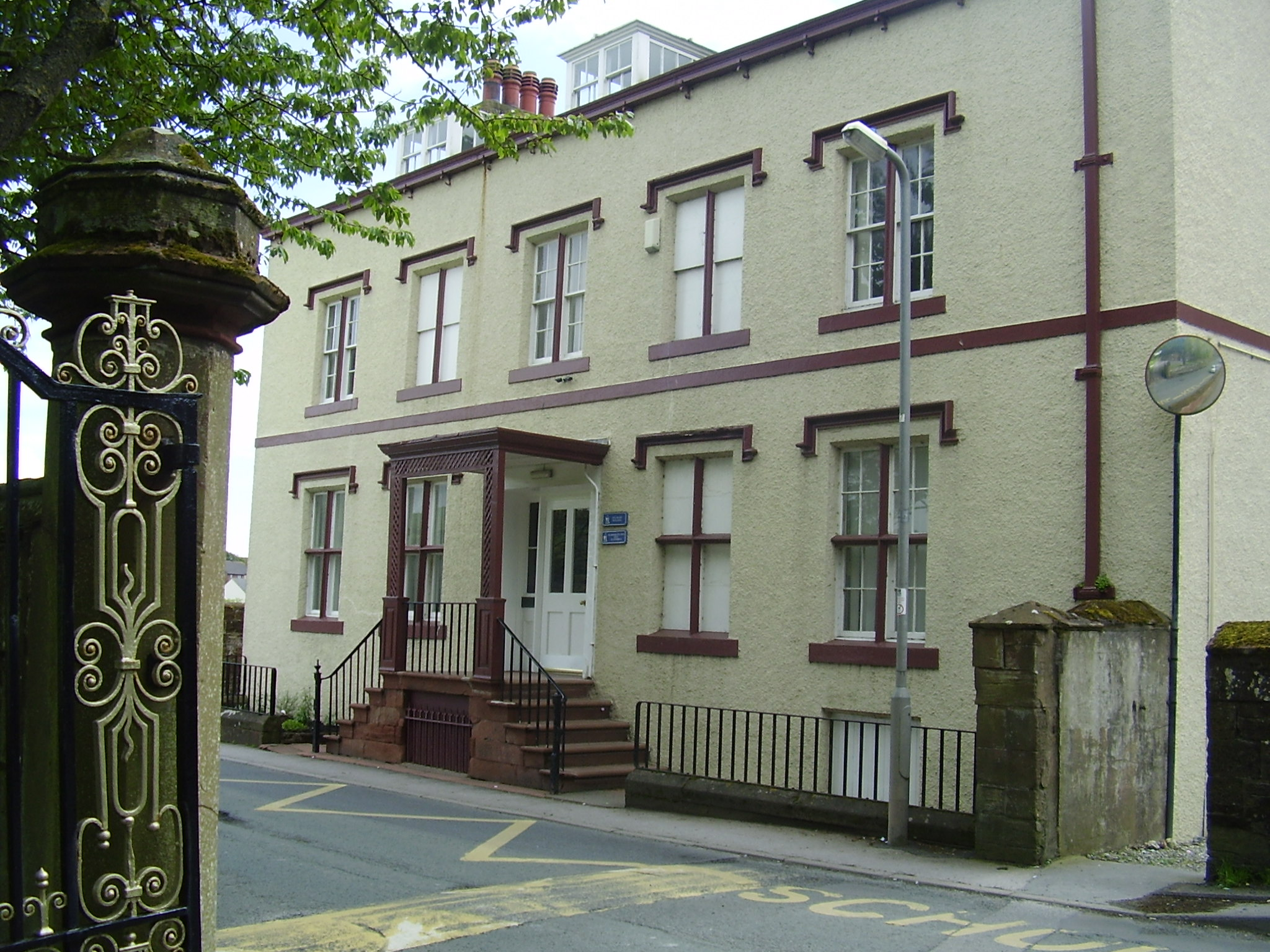 The Music block at St Bees School, known as the Fox Music Centre or Barony.